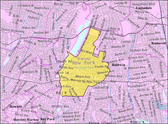 U.S. Census 2000 reference map for Rockville Centre, New York